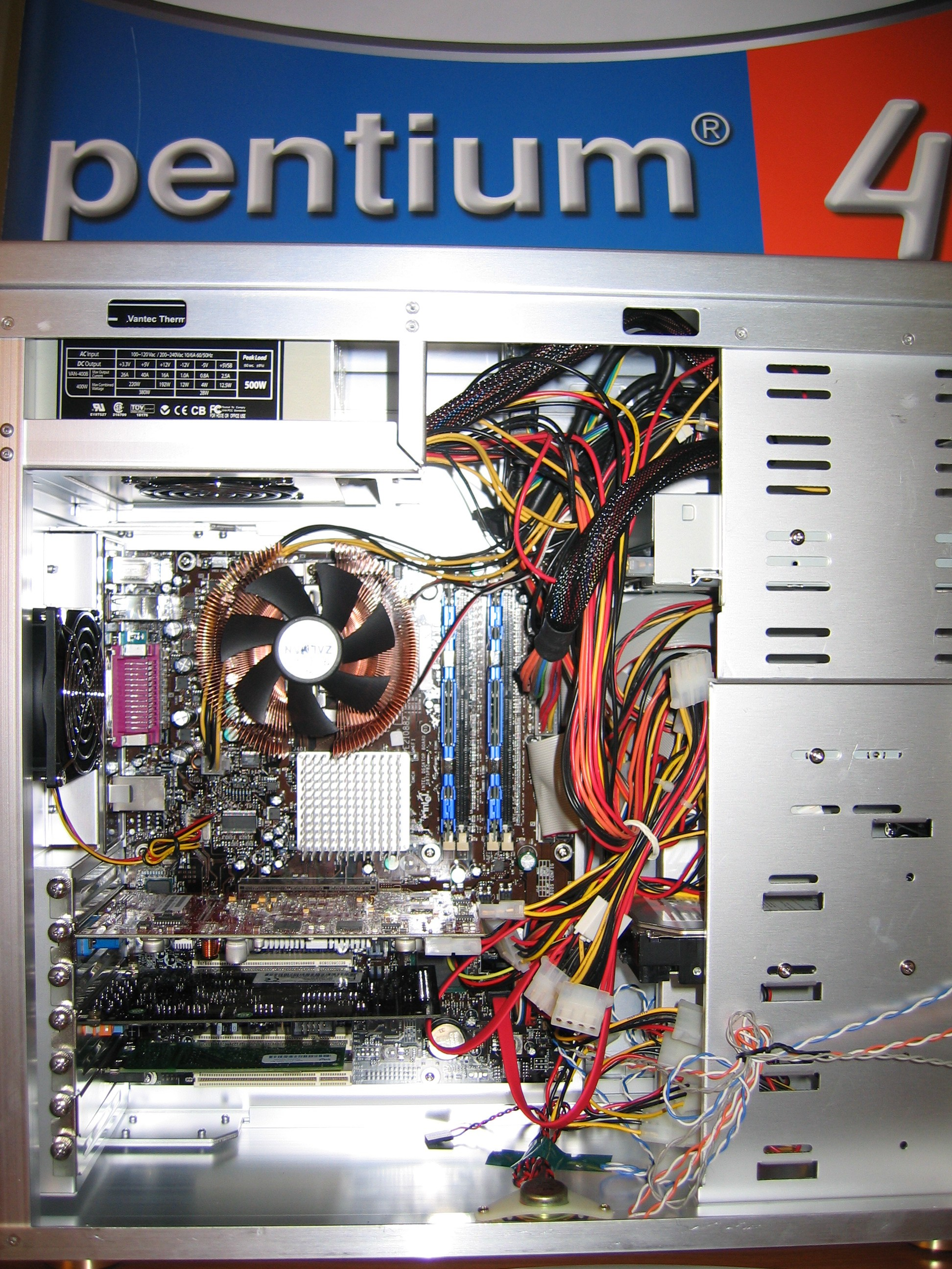 The Image of the actual 1st demonstrated Pentium 4 Extreme Edition